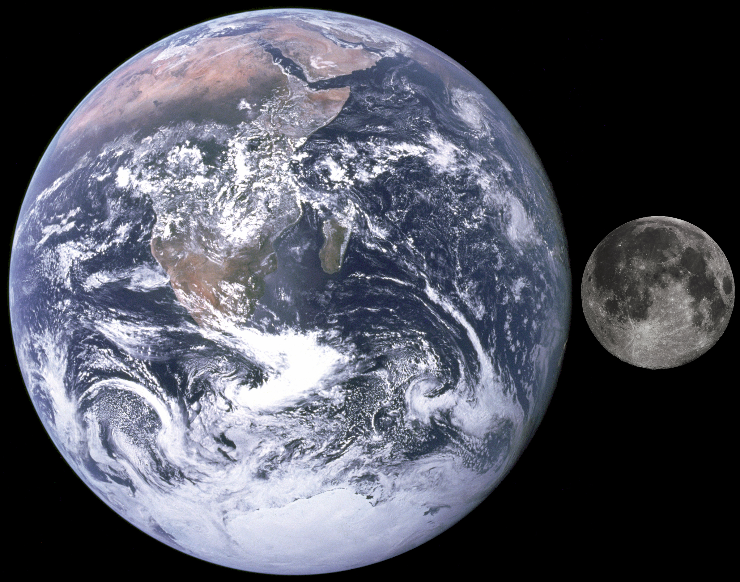 Diameter comparison of the Moon and Earth. Approximate scale is 29 km/px.